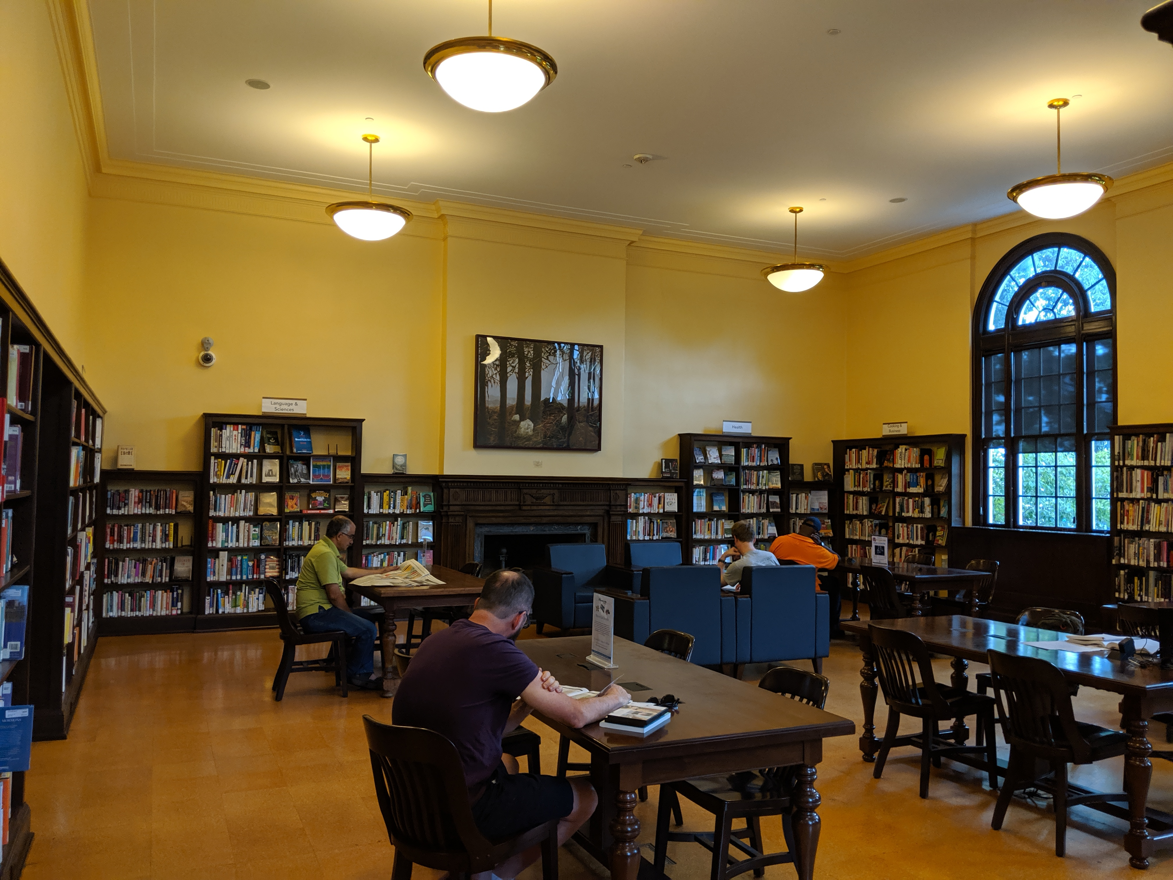 Northeast Library reading room, Maryland Avenue washington dc